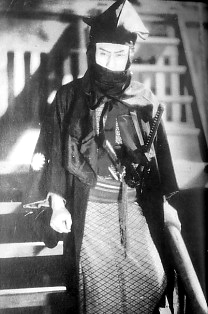 Kanjūrō Arashi as Kurama Tengu in the motion picture Gozonji Kurama Tengu: Sojūrō-zukin